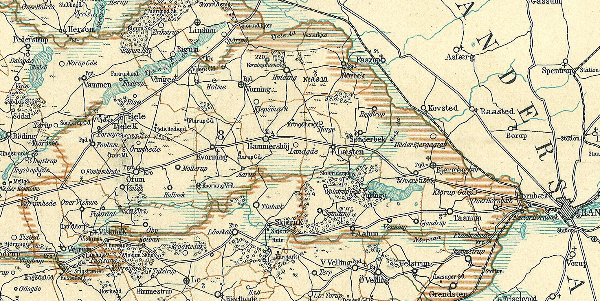 Map of Sønderlyng Herred in the eastern part of Viborg County in Denmark